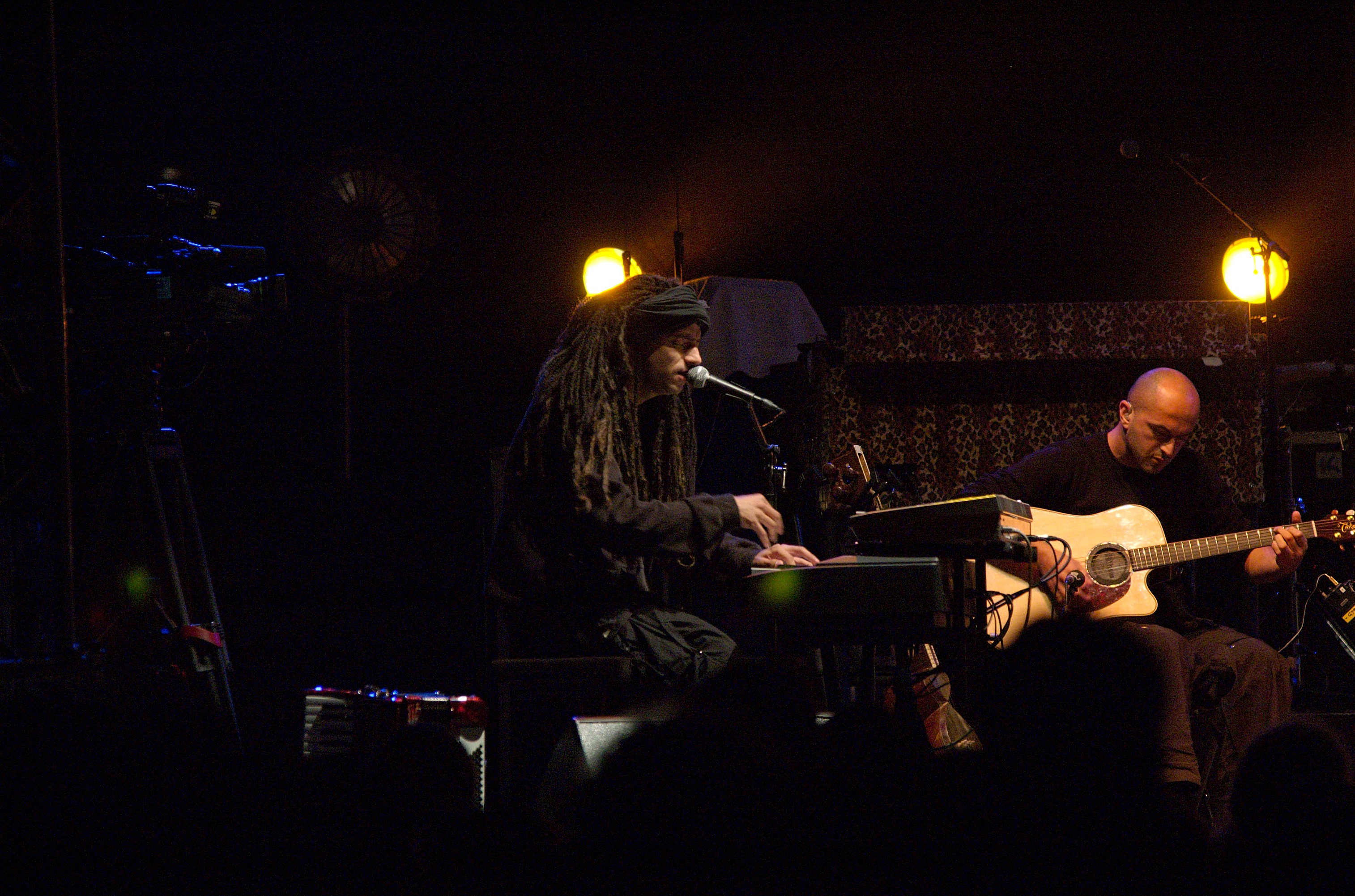 Idan Raichel on TFF.Rudolstadt 2007